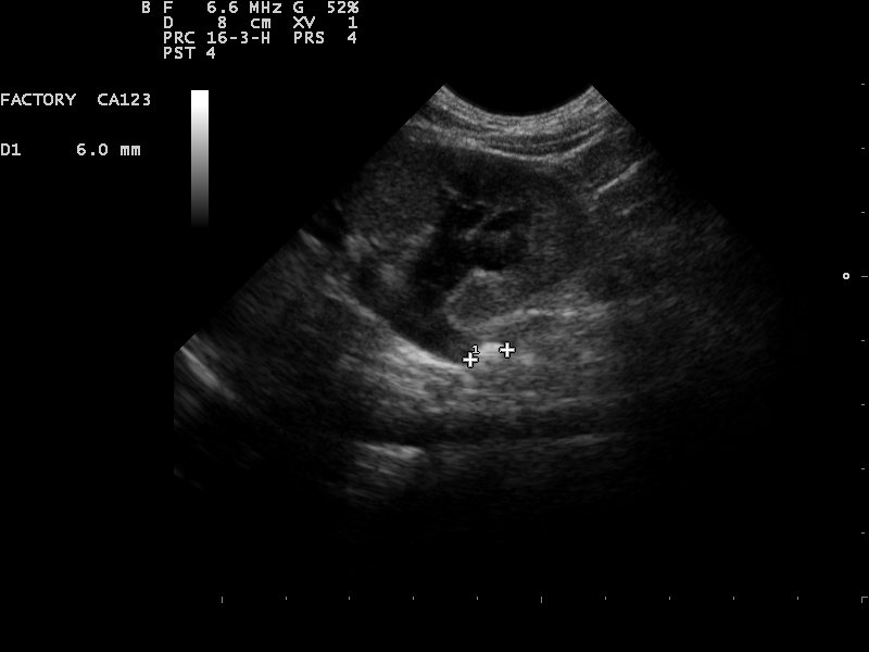 Ultrasound images of kidney